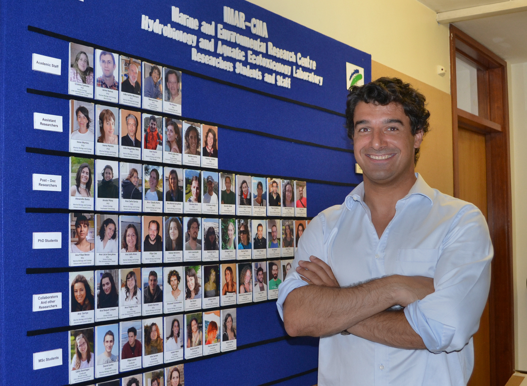 José Xavier in IMAR